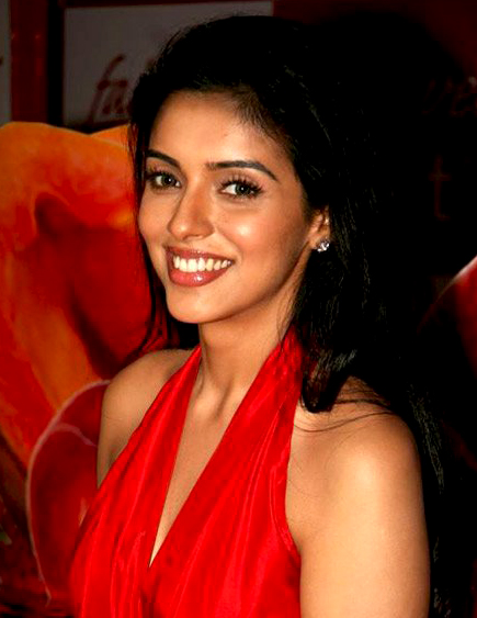 Image appeared on ( on the event page of Asin endorses Fairever Fruit Fairness Cream..This image is cropped to avoid the watermark